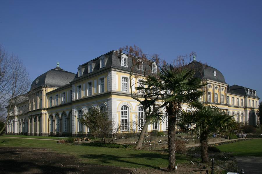 Perspective view from the west of the Poppelsdorf Palace in Bonn, Germany